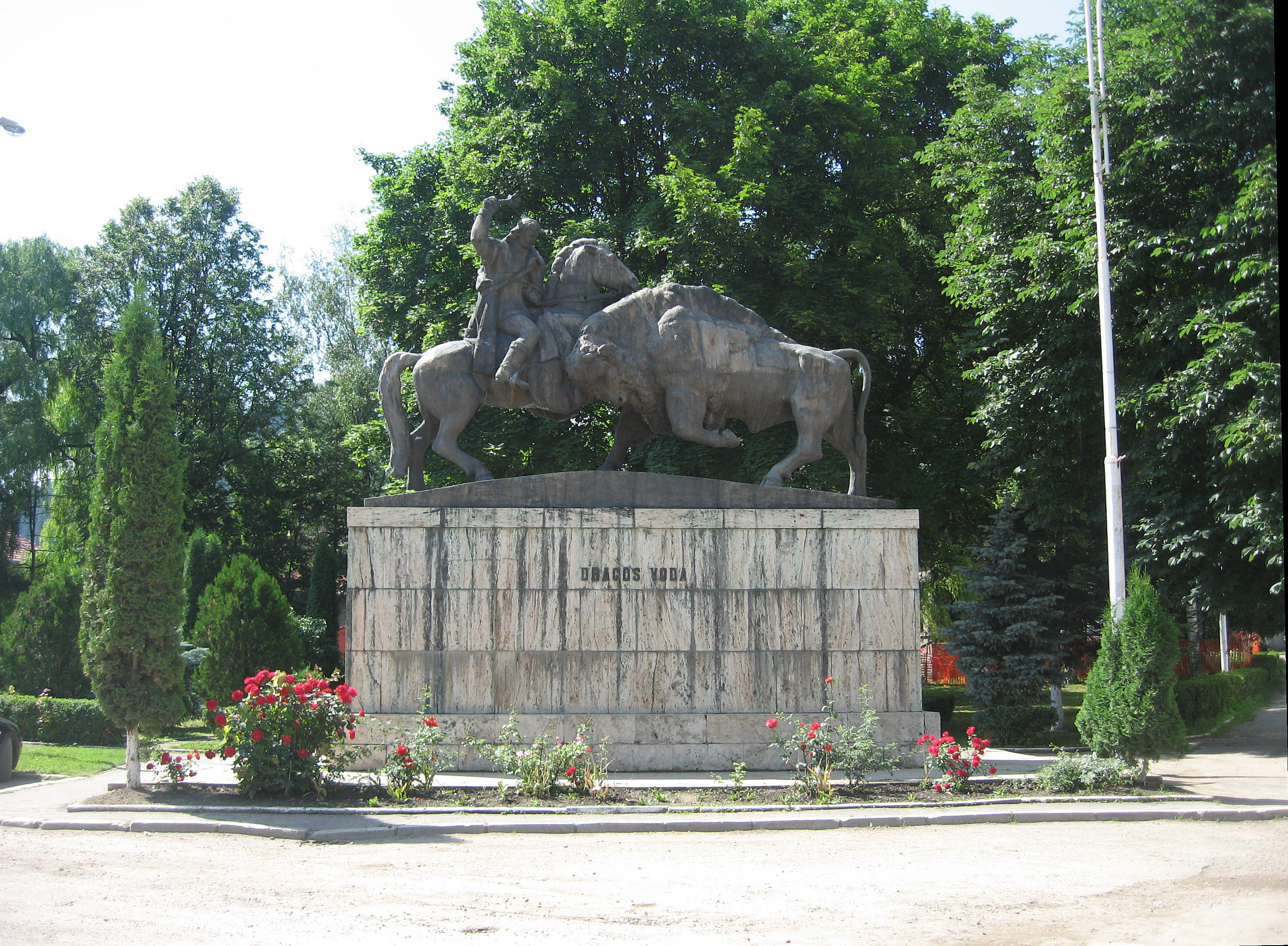 Dragoş Vodă şi zimbrul